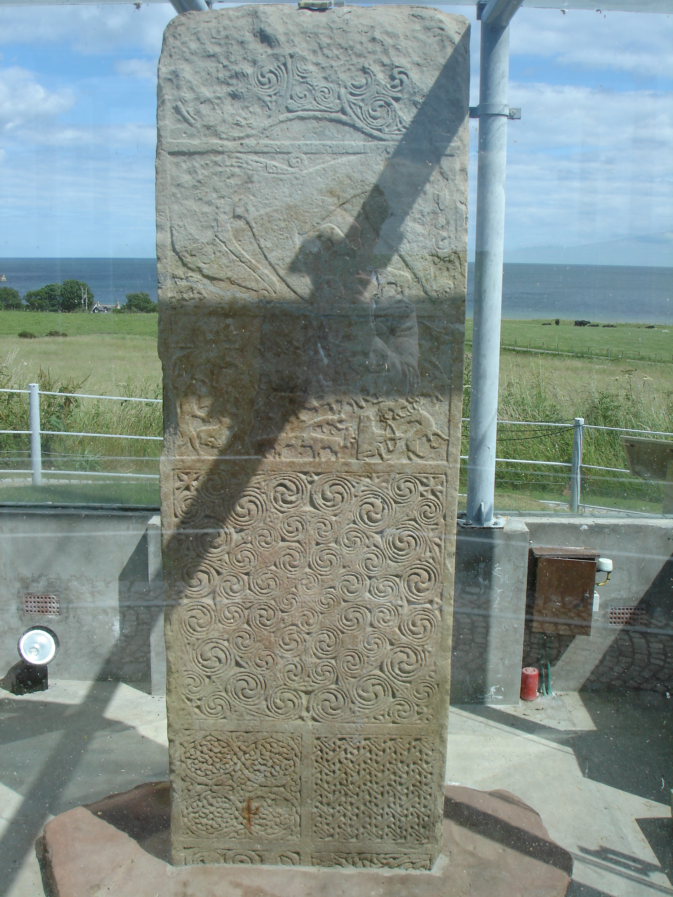 Picture of the Shandwick Stone, taken by user.